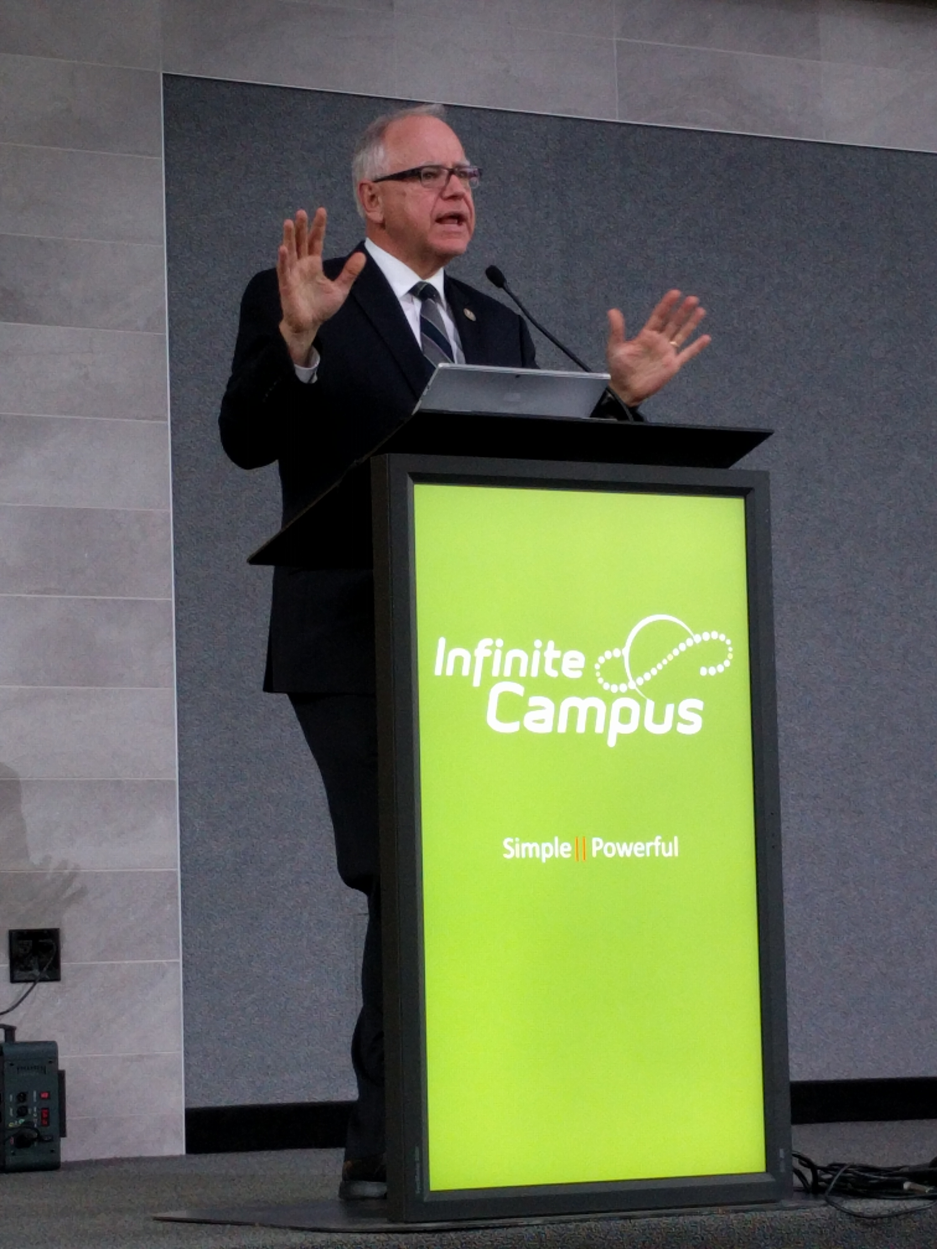 featured speaker at company meeting